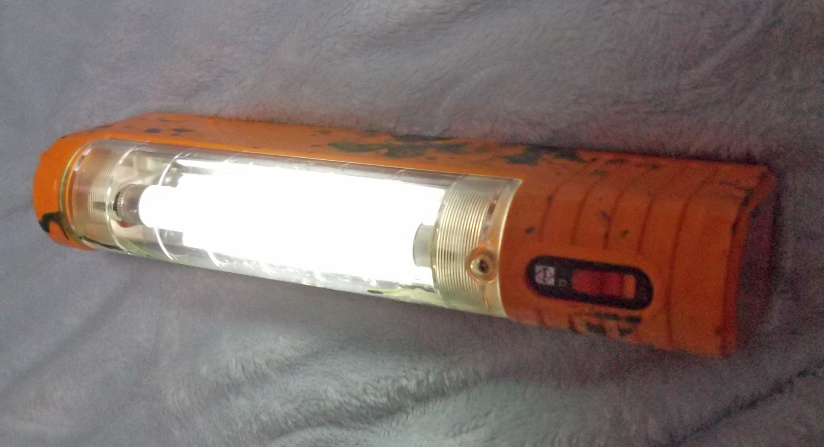 Fluorescent flashlight - BF-641